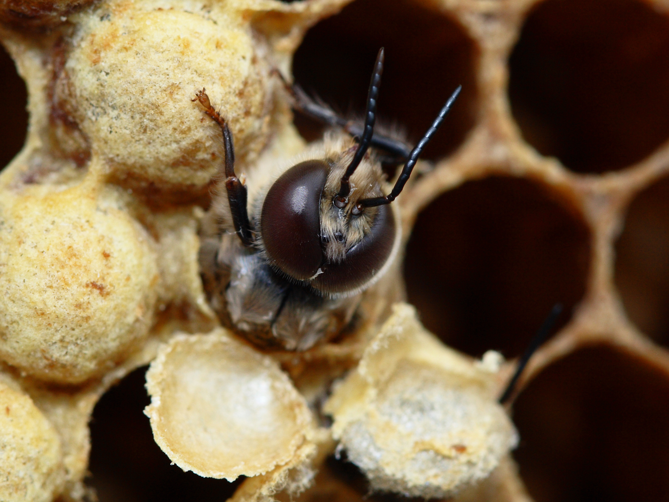 Drone of the Western honey bee emerging from cell